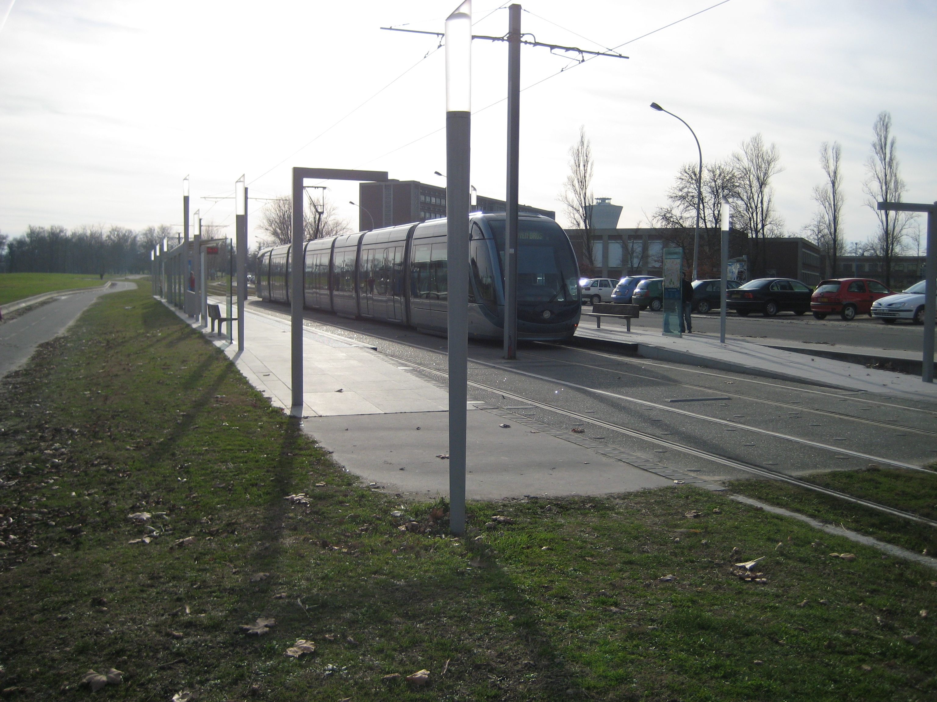 Station François Bordes on the Tramway de Bordeaux